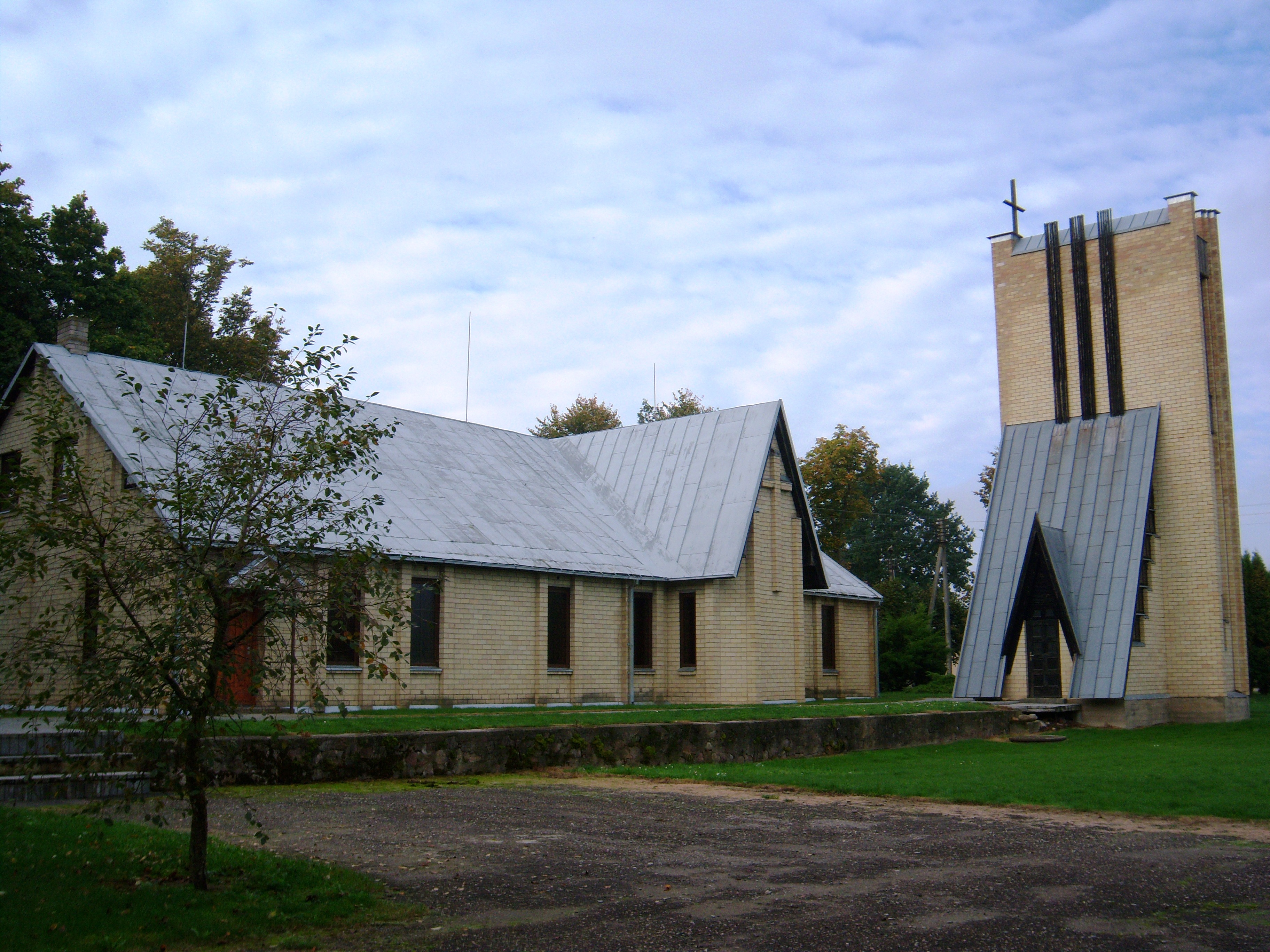 Roman Catholic Church and belltower, Keturvalakiai, Vilkaviškis District, Lithuania